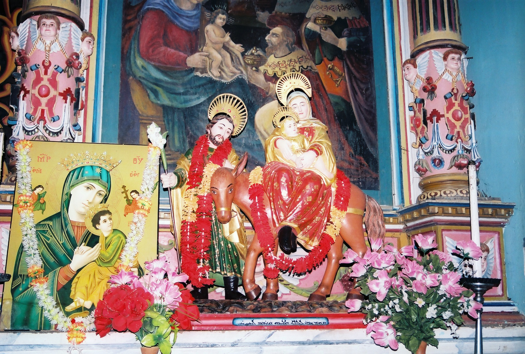 Interior of the Palayur Church, the oldest Christian church in India and one of the seven founded by St Thomas the Apostle in 52 AD.